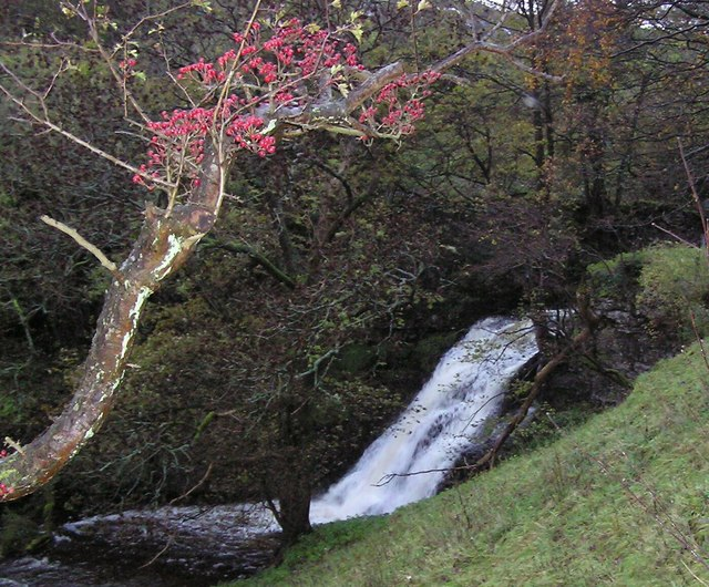 Cray Gill Waterfall, nr. Cray, North Yorkshire